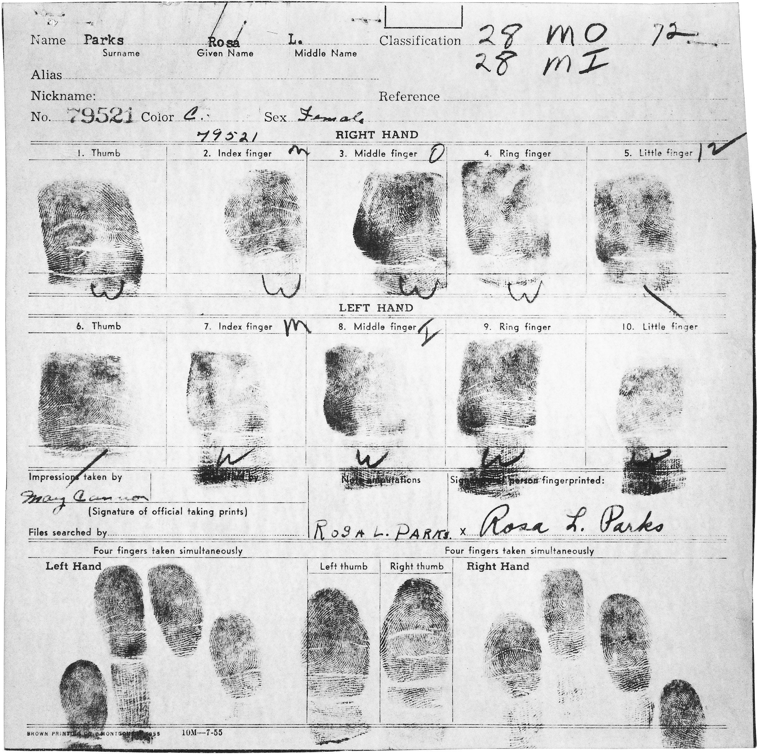 Fingerprint Card of Rosa Parks Civil Case 1147 Browder, et al. v. Gayle, et al.; U.S. District Court for Middle District of Alabama, Northern (Montgomery) Division Record Group 21: Records of the District Court of the United States National Archives and Records Administration-Southeast Region, East Point, GA.